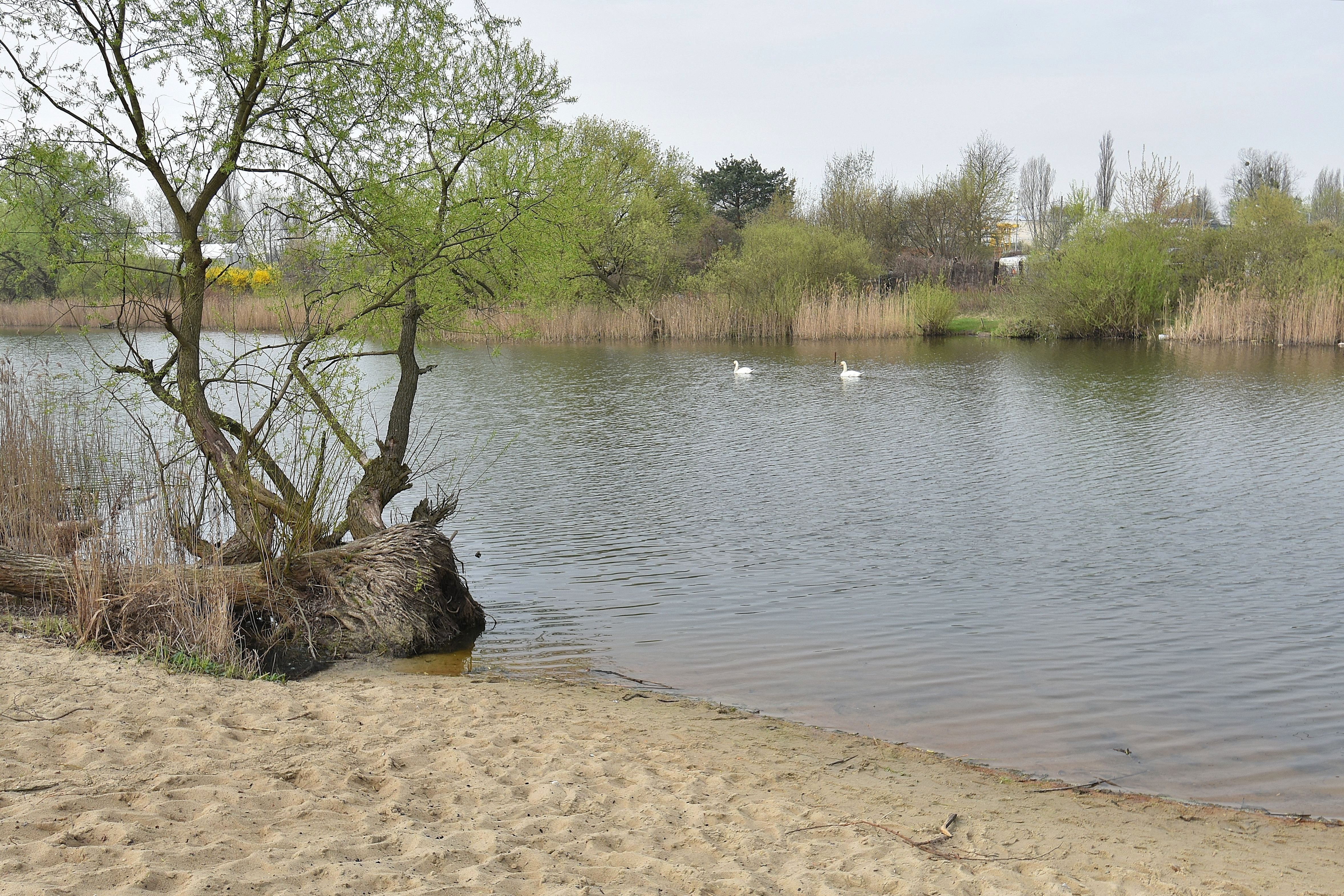 Kozia Górka pond in Warsaw